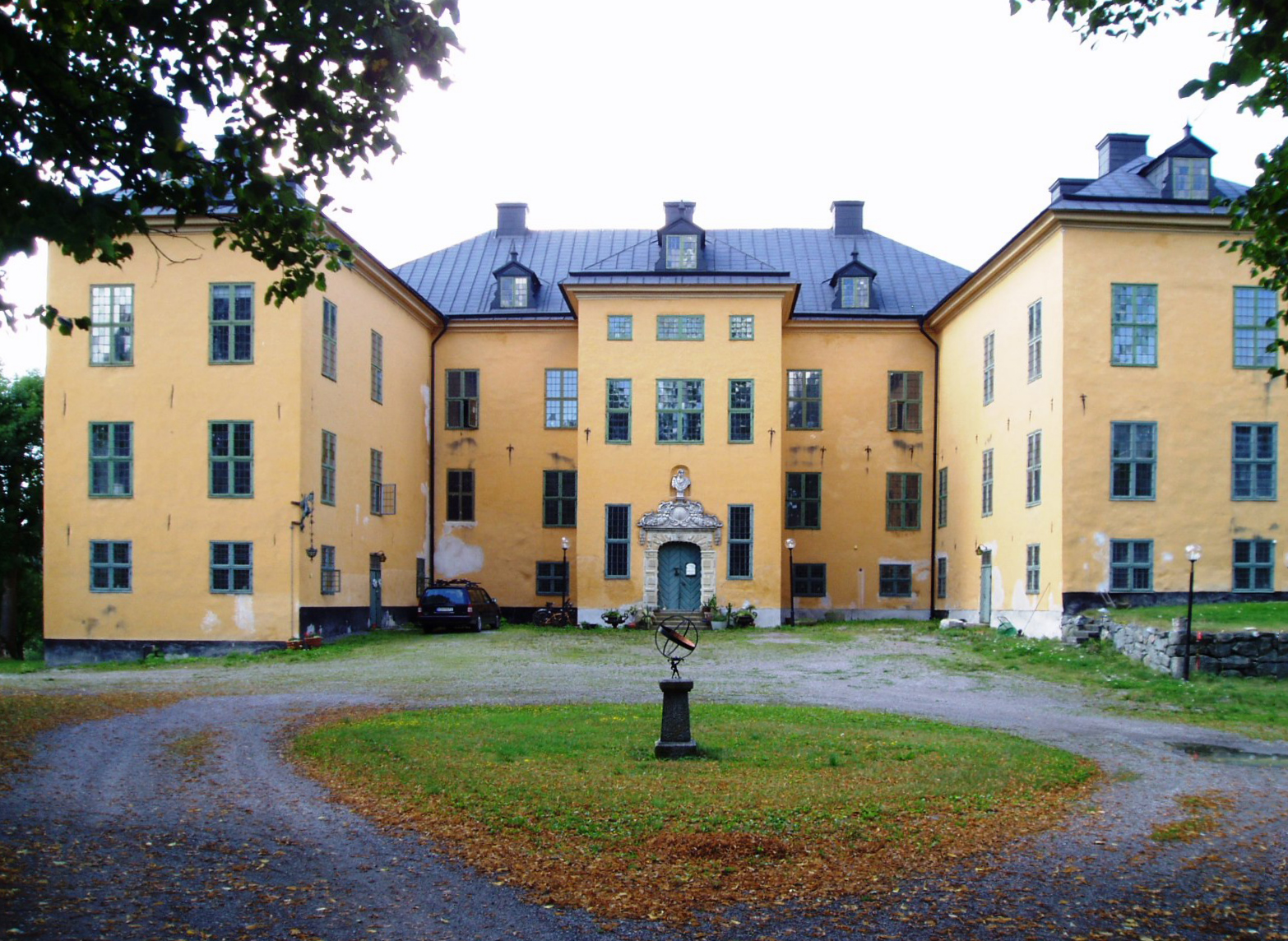 Castle Venngarn, Sigtuna Municipality, Sweden.